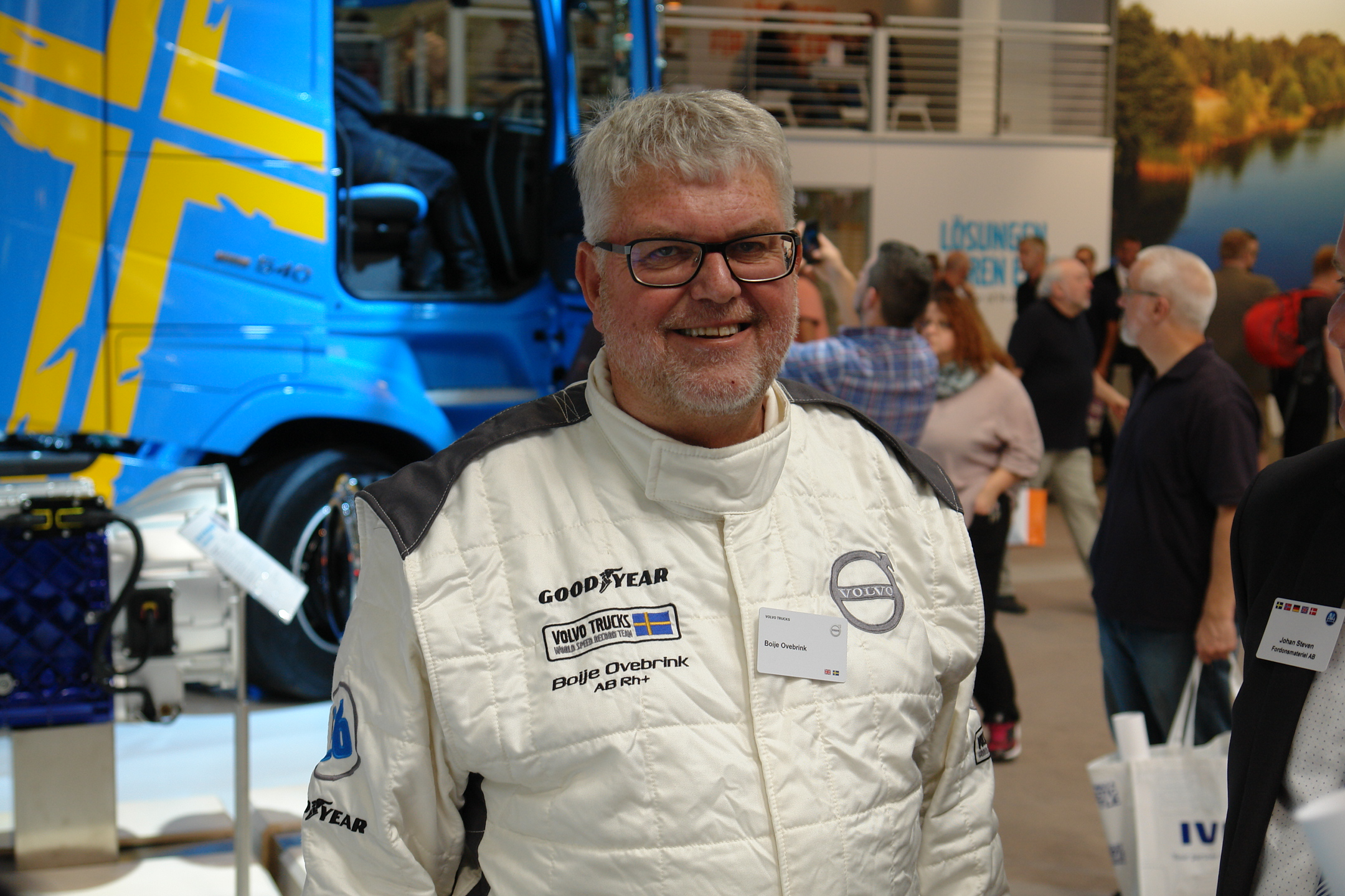 IAA 2016 at Hannover